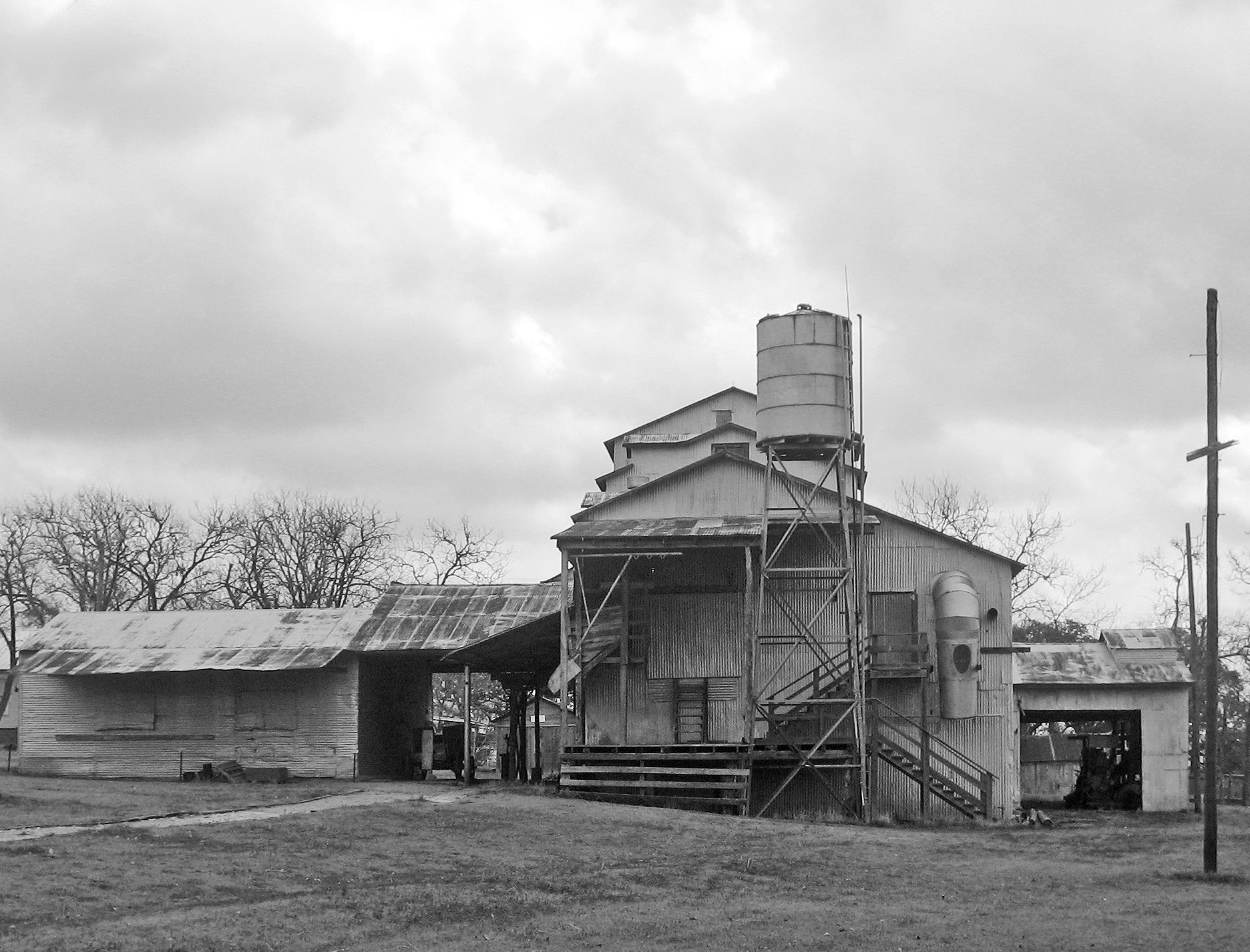 This is the earliest known still operating survivor of an integrated cotton ginning system widely used to process cotton from wagon to bale in a continuous operation. The gin machinery was designed and built in 1914 by the Lummus Cotton Gin Company and can process seven bales per hour. Five gin stands, stick machine, burr machine, separators, cleaners, press pump, and pneumatic conveying fans all driven by a 125-hp Bessemer oil engine.